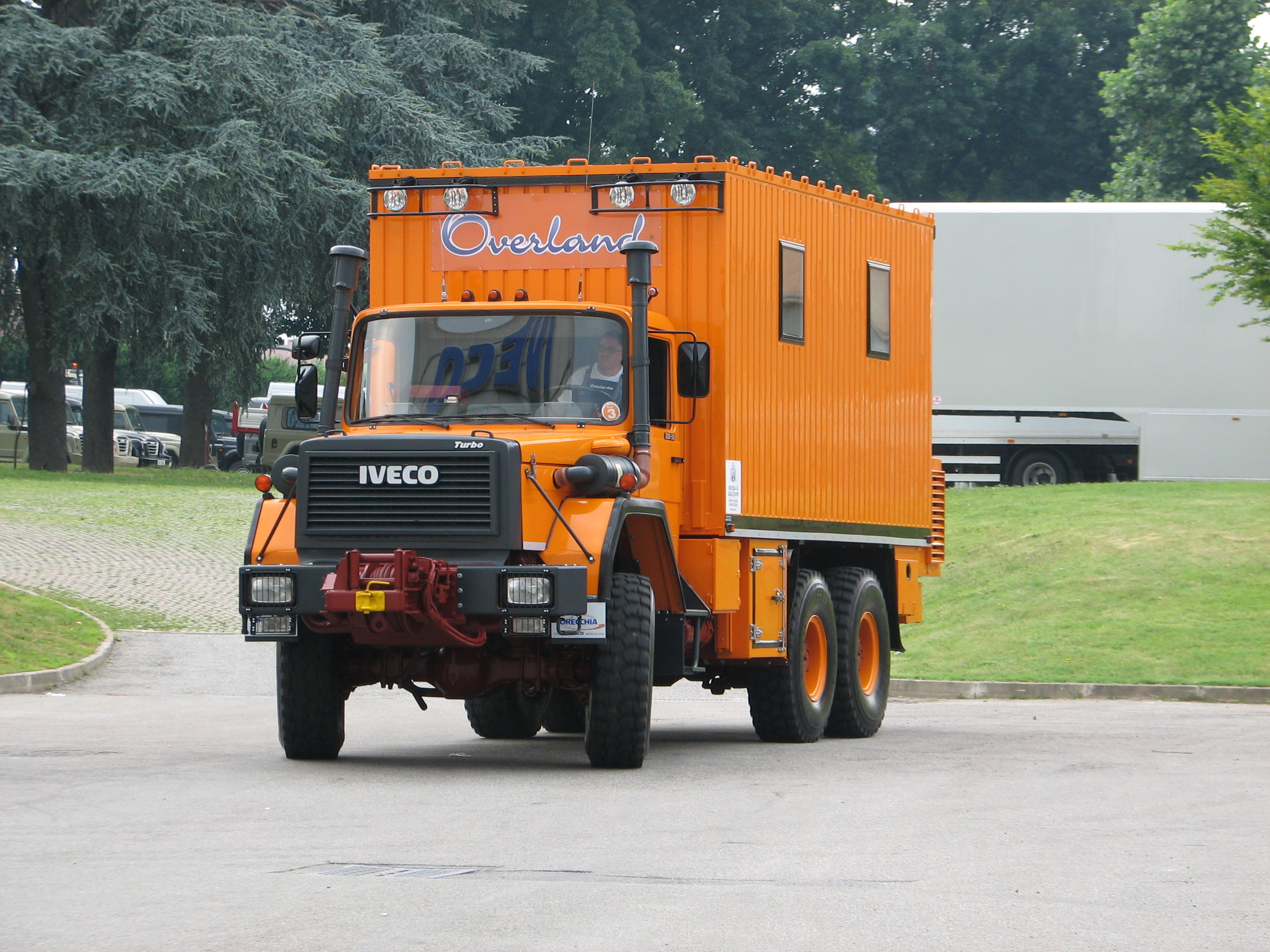 Overland World Truck Expedition - Motor-home Truck